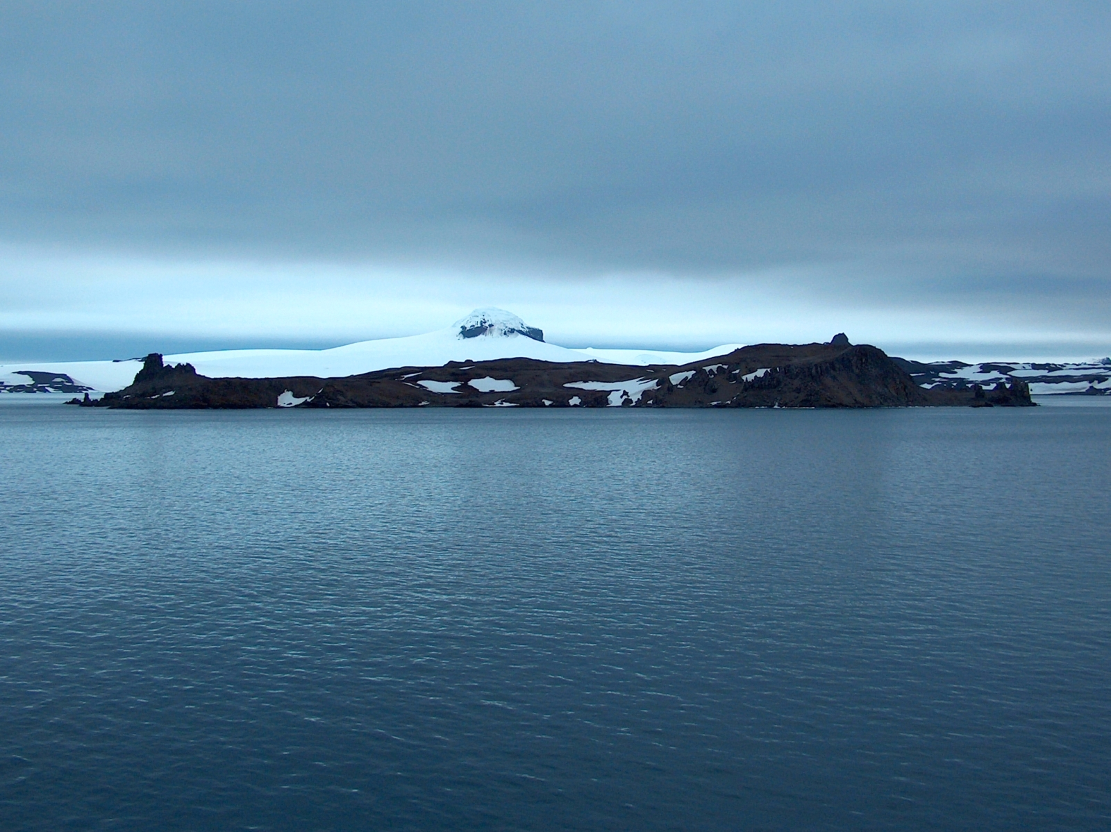 Picture published by the author Lyubomir Ivanov.